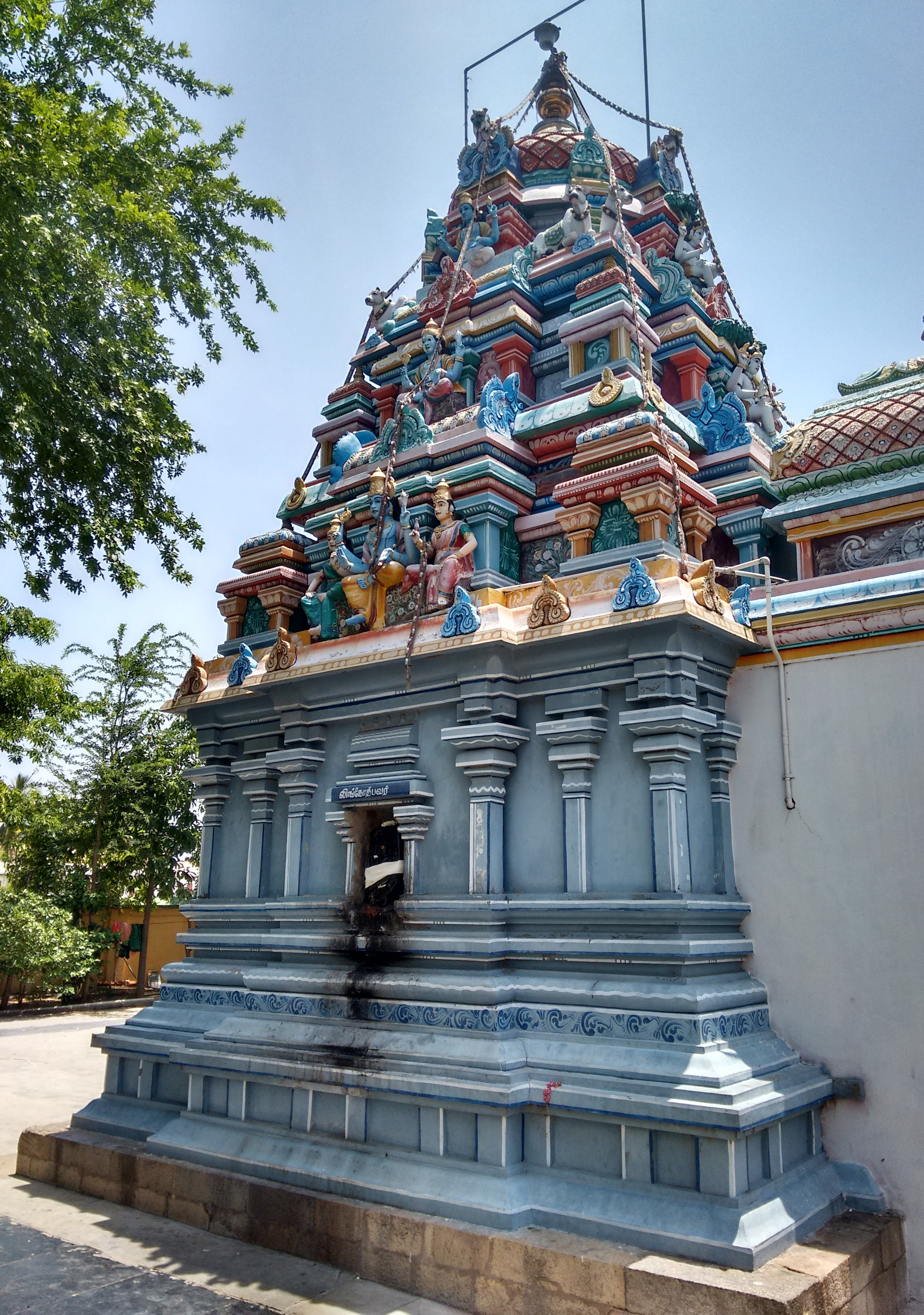 Punnainallur Kailasanathar Temple vimana புன்னைநல்லூர் கைலாசநாதர் கோயில் விமானம்